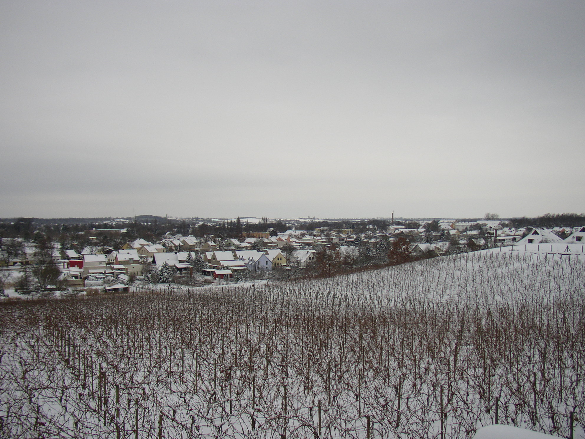 The vineyard Quail's Mountain of Werder lies geographically with Latitude of 52 degree and 22 minutes north far to the north of the usual wine-growing areas of Europe. In 1991 this vineyard was taken up as a Großlagenfreie Einzellage in the Weinanbaugebiet Saale-Unstrut (winegrowing area at the rivers Saale and Unstrut) and was recognised by the EU. It is with it the most northern registered position for quality-tested wine cultivation (QbA) in Europe and the World.